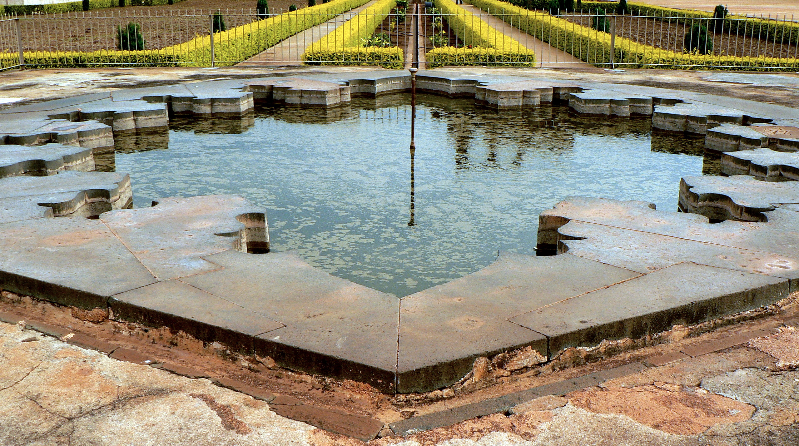 The bidar fort entrance has a well maintained garden and museum. The photo overlooks the garden area.